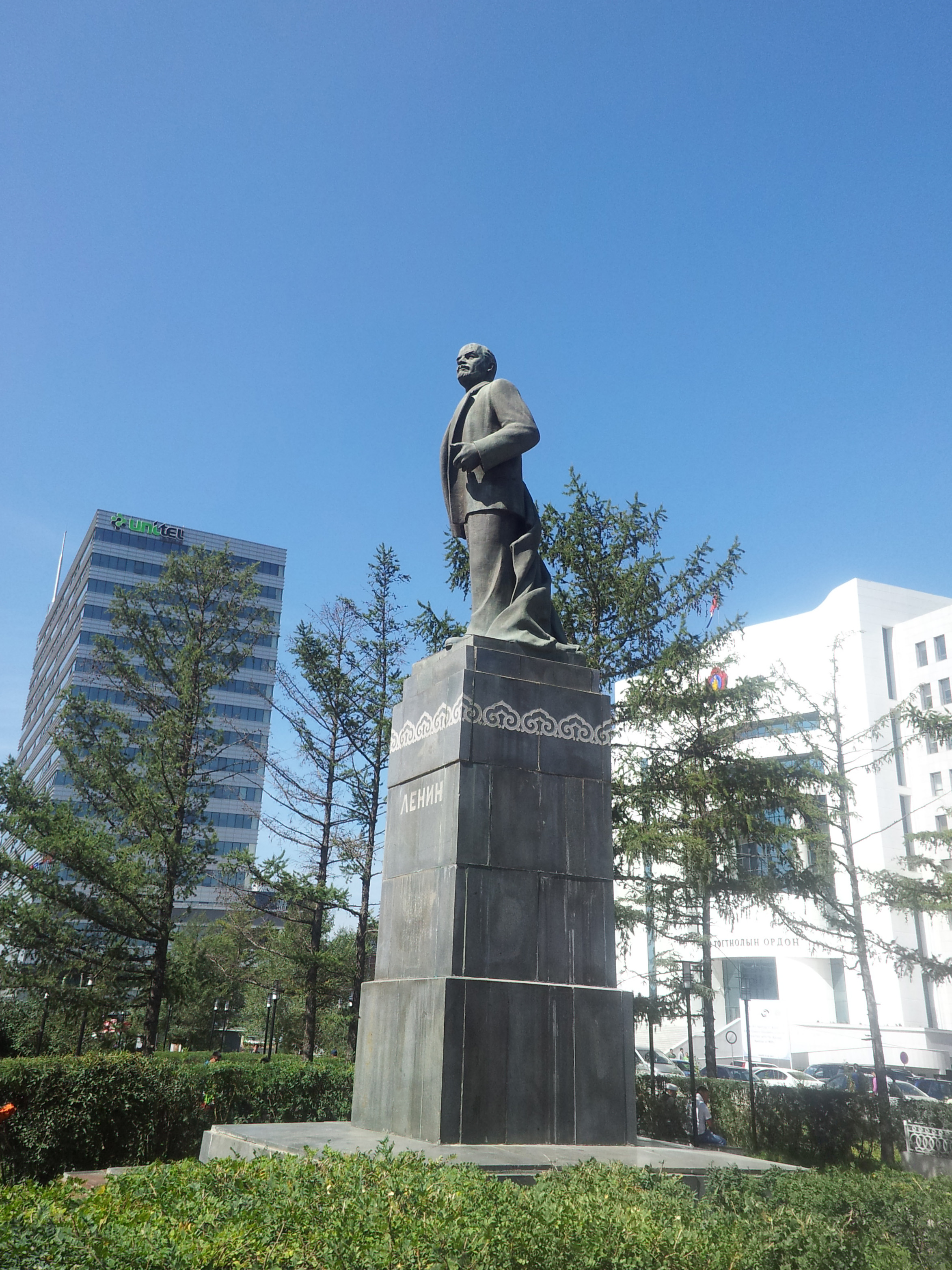 Statue of Vladimir Lenin in Ulaanbaatar